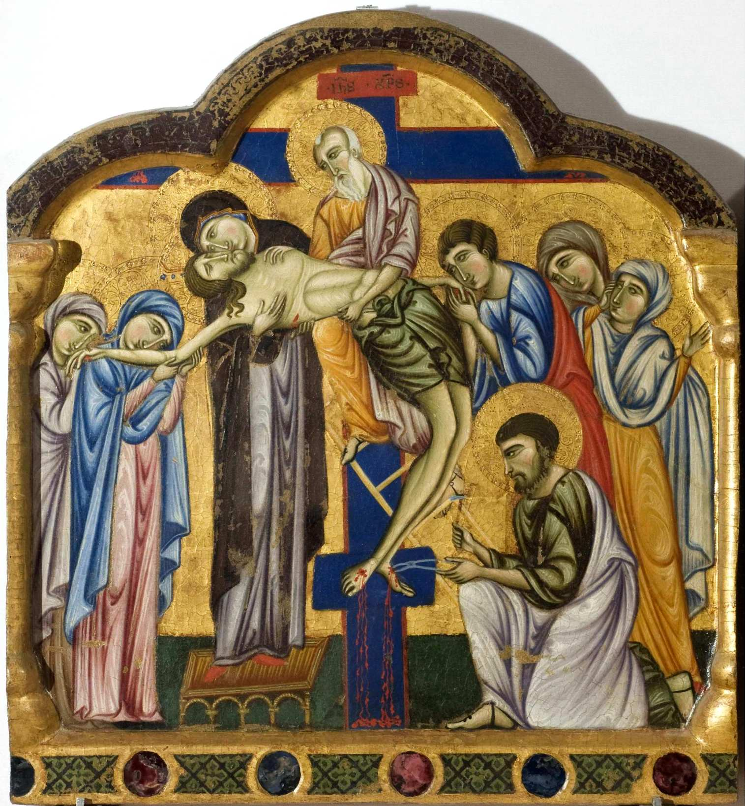 Double-sided Polyptych